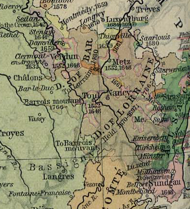 Map of the Three Bishoprics showing their annexation to Early Modern France